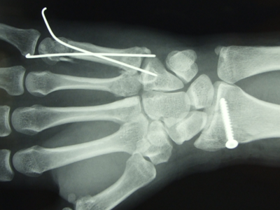 کار گذاشتن ایمپلنت منیزیمی زیست جذب شونده برای درمان شکستگی استخوان دست